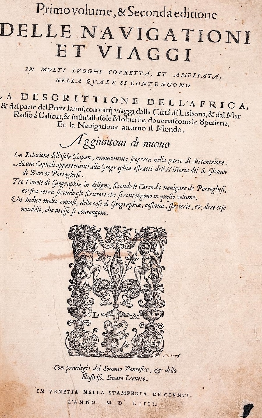 Title page of Johannes Leo Africanus (1554). A Geographical Historie of Africa, Written in Arabicke and Italian. ... Before which... is Prefixed a Generall Description of Africa, and... a Particular Treatise of All the... Lands... Undescribed by J. Leo...